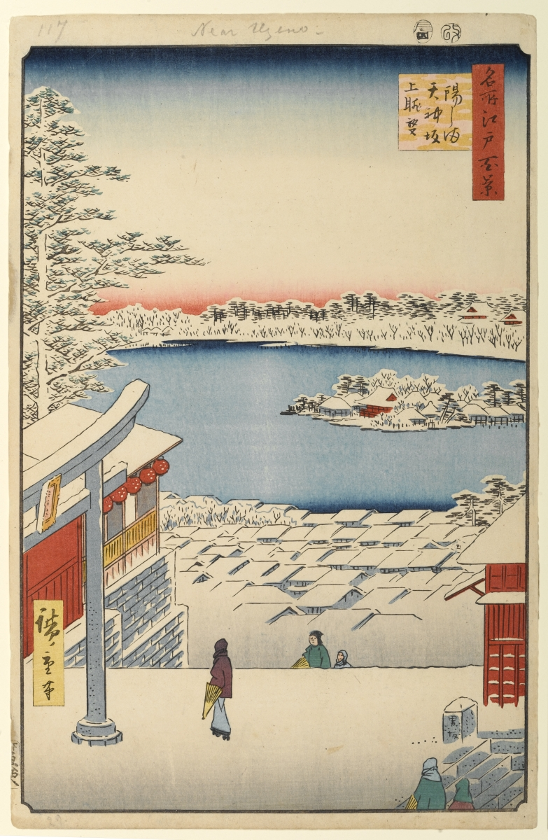 Part of the series One Hundred Famous Views of Edo, no. 117, part 4: Winter.